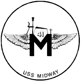 Old Seal of aircraft carrier USS Midway (CV-41)